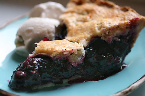 Best Blueberry Pie with Foolproof Pie Dough.